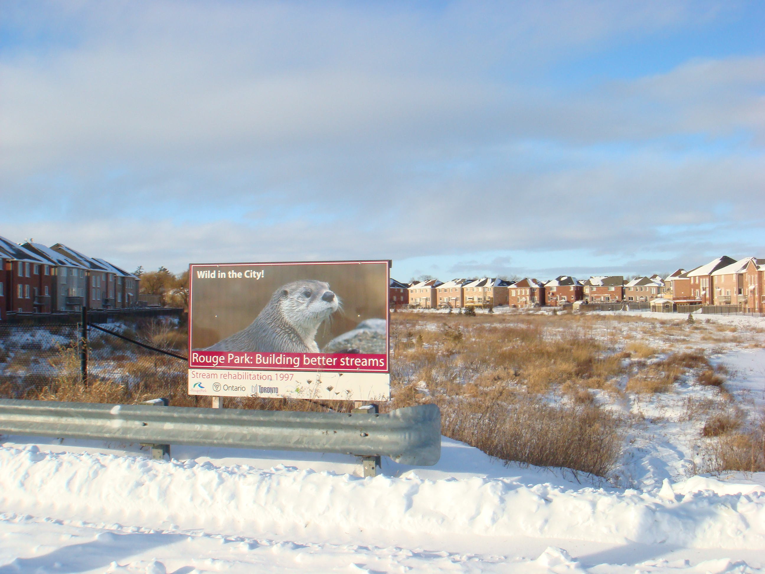 Rouge Park, in Morningside Heights, along Season Road